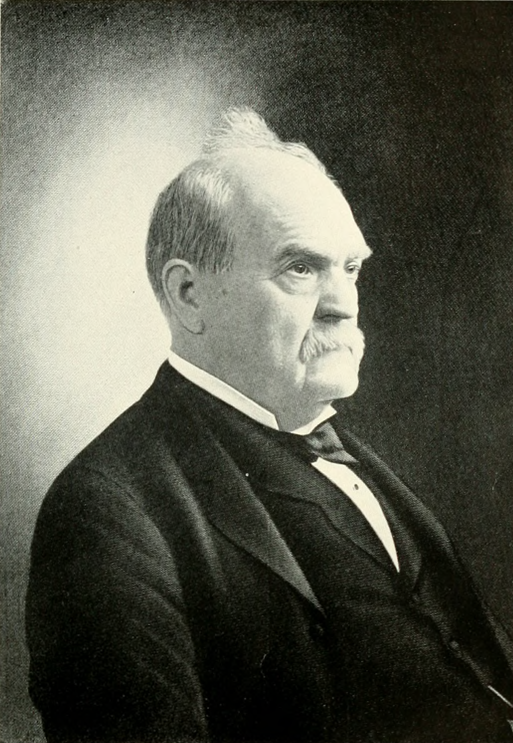 Harvey W. Scott of Portland, Oregon